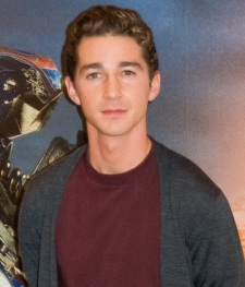 Shia LaBeouf posing at the Transformers: Revenge of the Fallen press conference in Paris